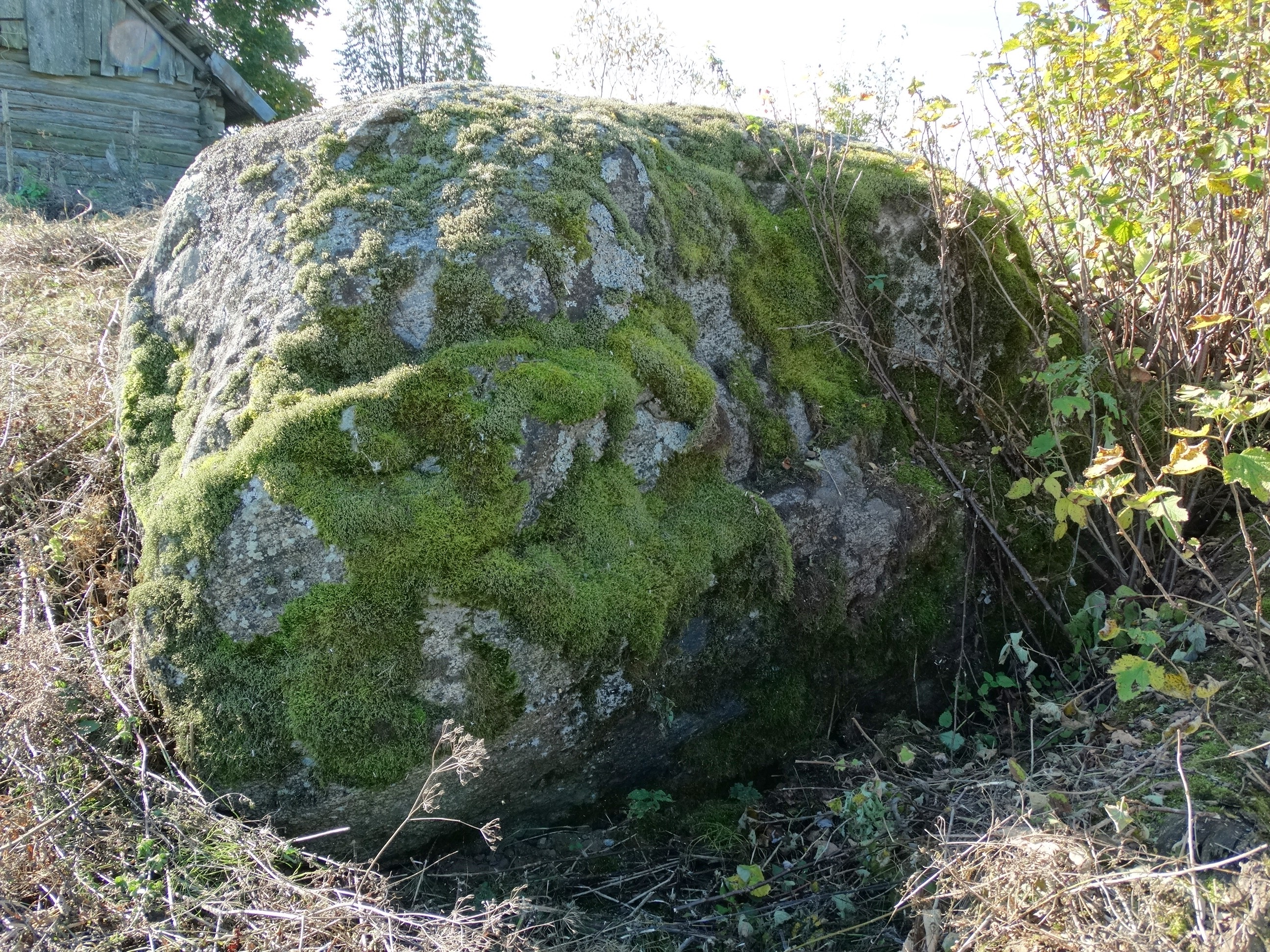 Degučio stone in Medinai, Kaišiadorys District, Lithuania